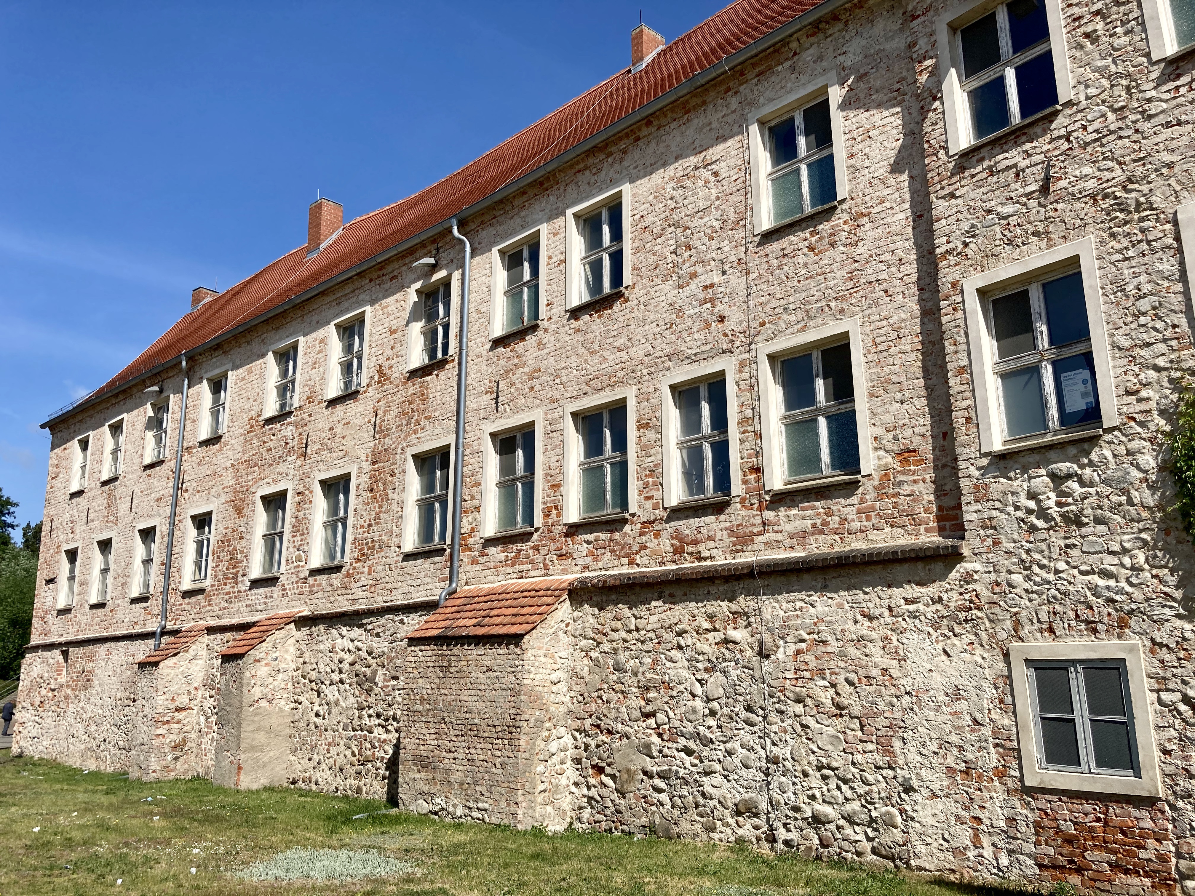 South wing of the Old Castle of Fürstenberg/Havel, Germany, built in the 16th century on the foundations of a medieval water castle.